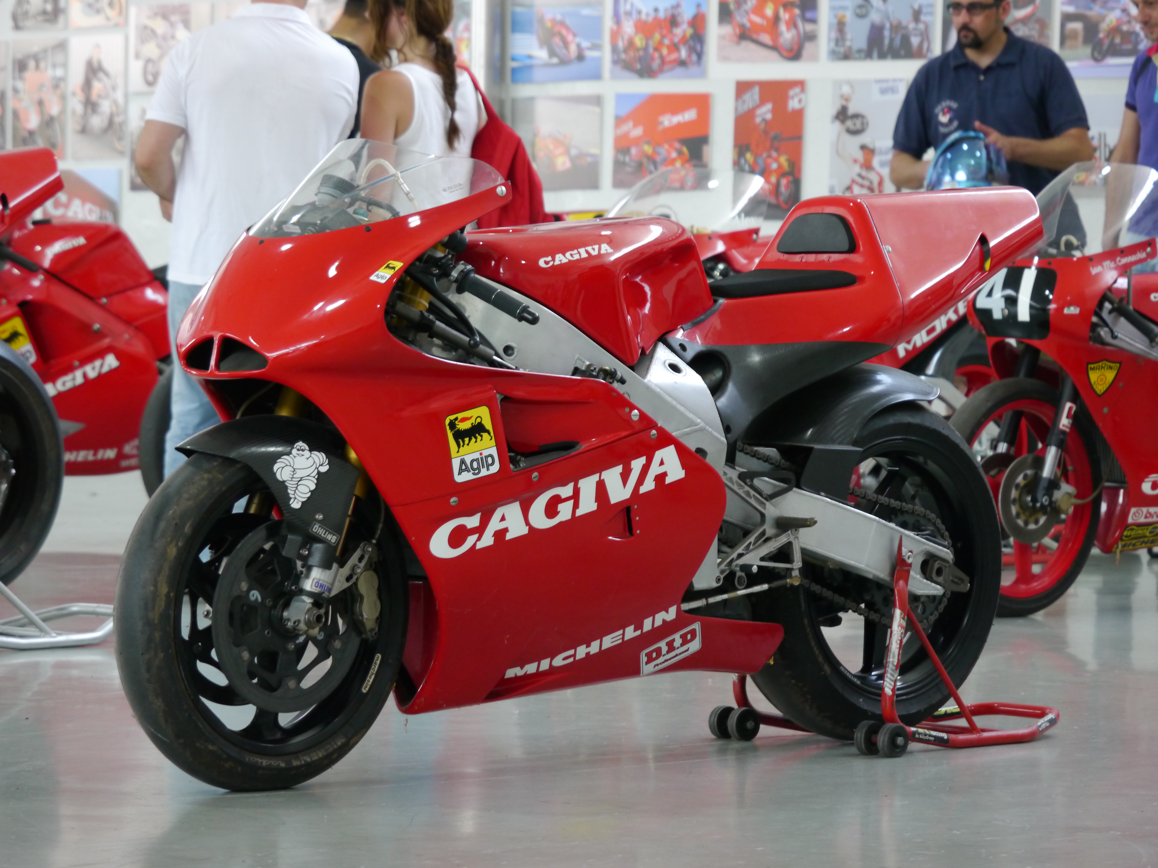 1994 Cagiva C594 (Cagiva GP500 series) at "Gli Amici di Claudio 2015" event in Schiranna, Varese (Italy), Summer 2015.